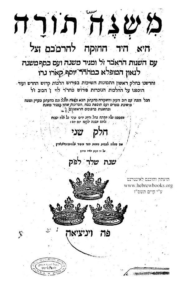 The Title page of Mishnah Torah by Moshe ben Maimon haRambam, published in Venice in 1575